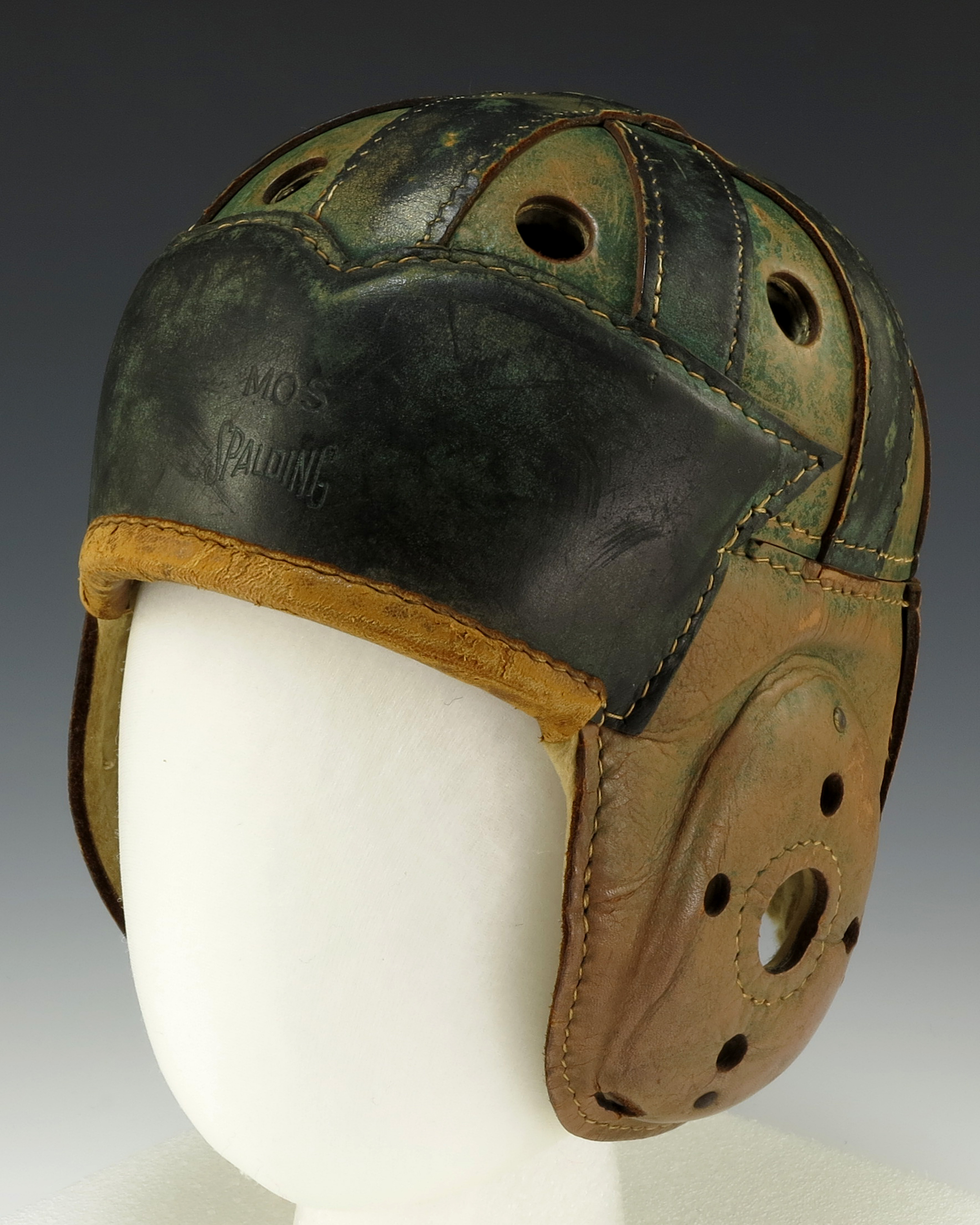 Leather football helmet believed to have been worn by Gerald Ford while playing for the University of Michigan, 1932-1934. The helmet features the Michigan Wolverines logo. The front is embossed, “MOS / Spaulding,” with “Pat'D No 1.864.104” on back.